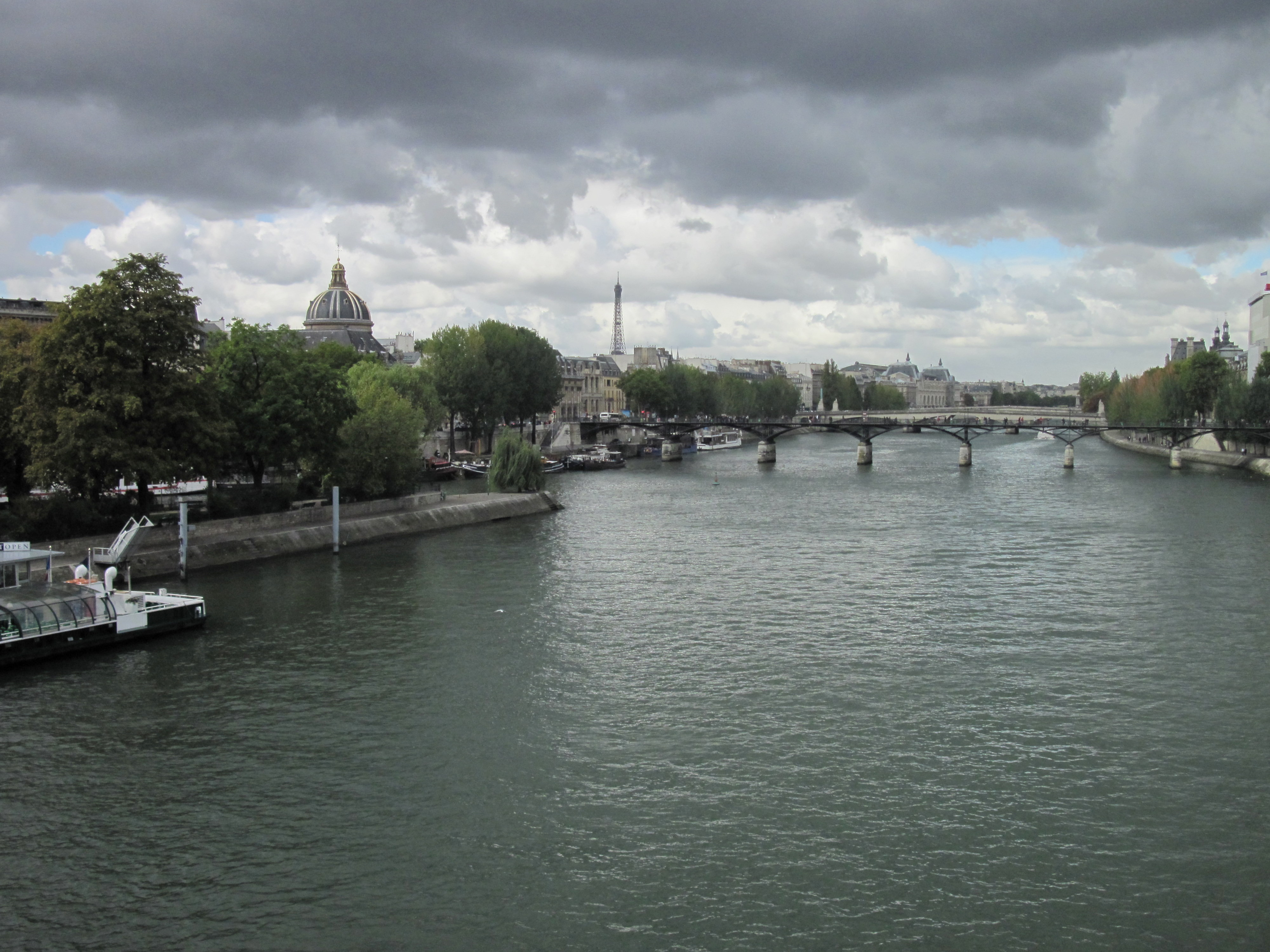 Sena 2010 in Paris